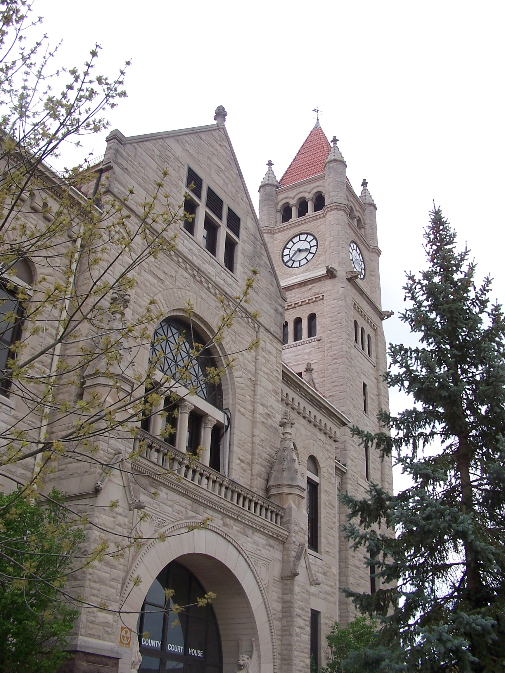 Greene County Courthouse in downtown Xenia, Ohio